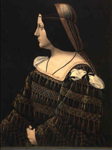 PORTRAIT OF A LADY, HALF LENGTH, IN PROFILE, IN A BLACK DRESS DECORATED WITH LACE, WITH PENDANT TASSELS